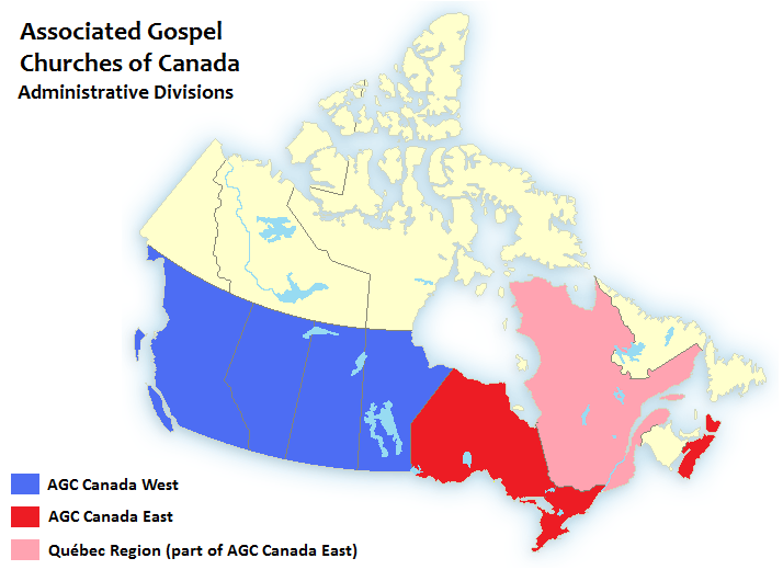 Canadian Provinces in which the AGC has member churches This is the work of